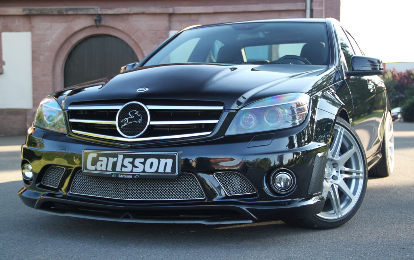 Carlsson CK63 RSR at Gut Wiesenhof